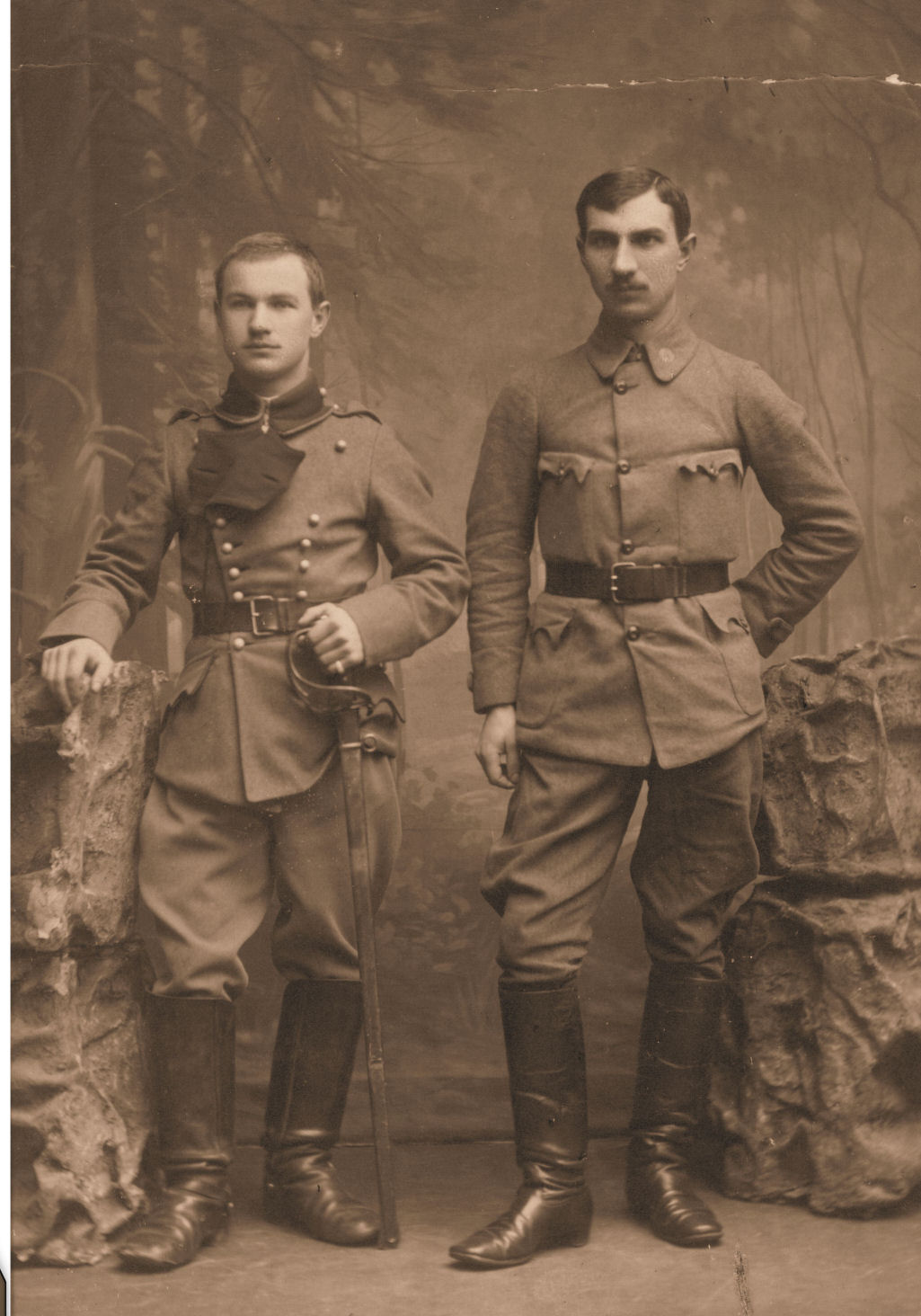 Brothers Stanisław (left) and Józef Korczak in 1916.